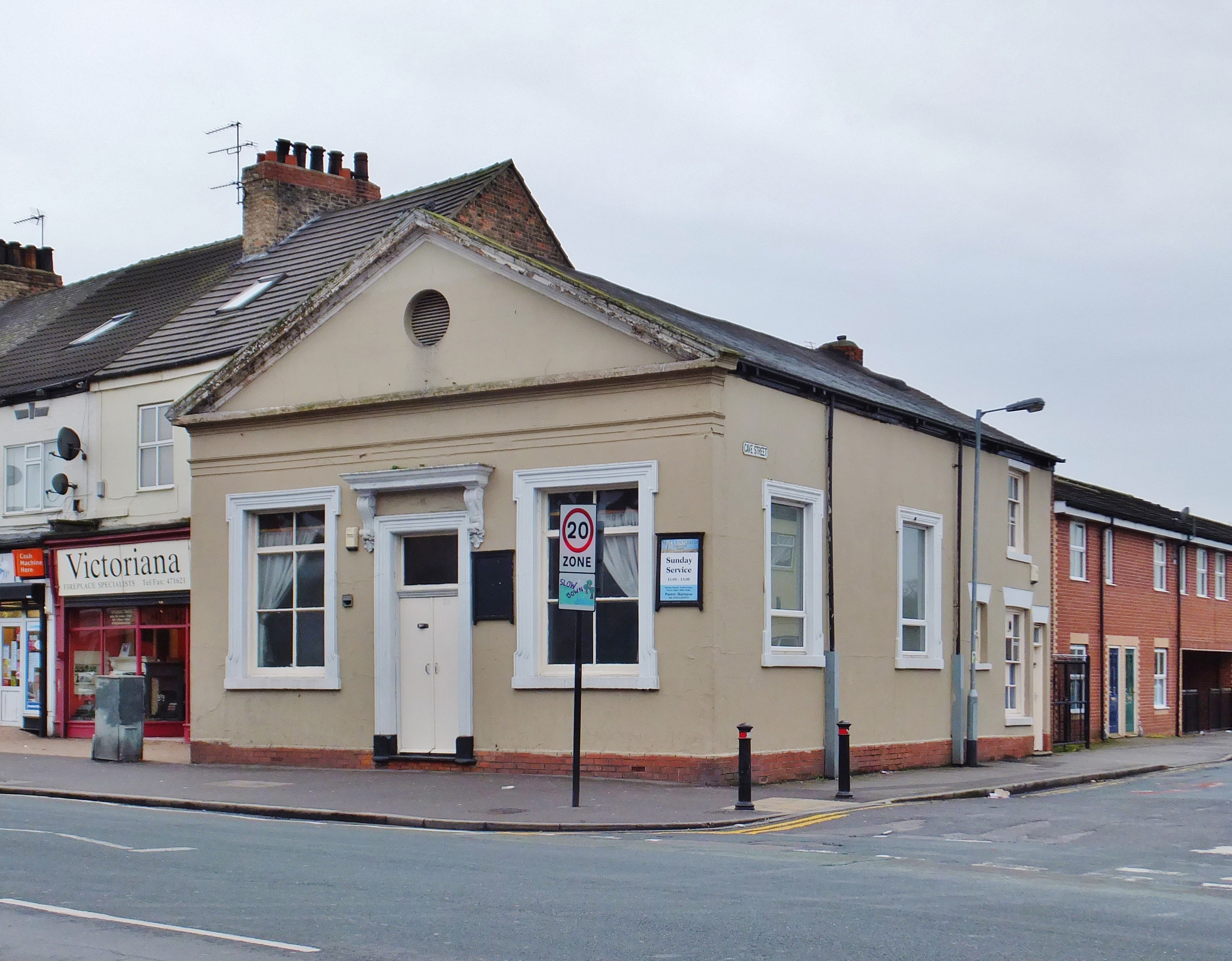 Beverley Road, Hull, East Riding of Yorkshire, England.At the junction with Cave Street, Millennium Harvest Church, No.219 Beverley Road. A simple stuccoed classical building with a pedimented gable, it was built by the New Connexion Methodists, 1849, as the Stepney or Zion Chapel. It was sold 1872 and has subsequently been used by the Salvation Army, the Assemblies of God, and the Glad Tidings Hall (Pentecostal).